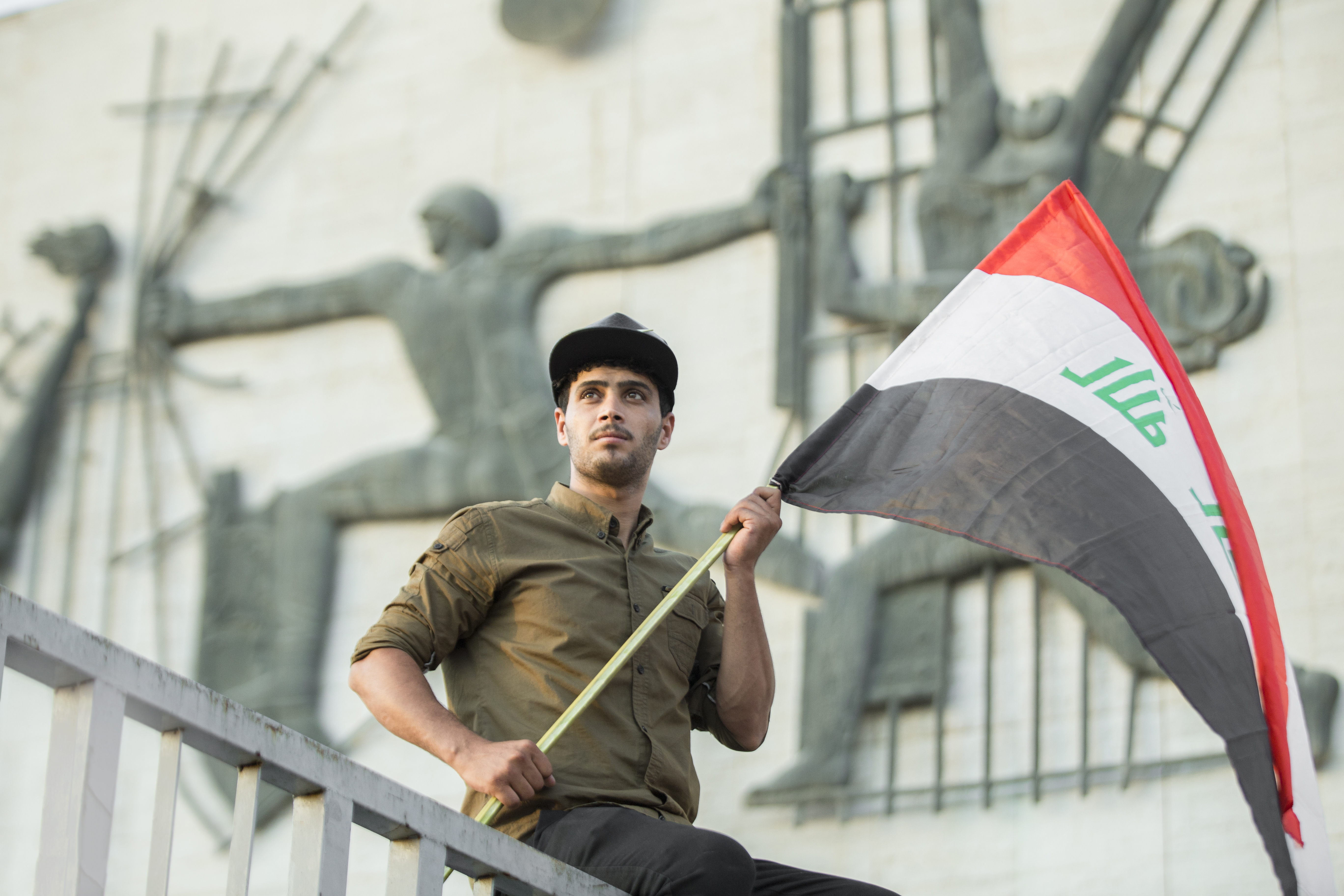 An Iraqi protester holds the Iraqi flag in the October Revolution